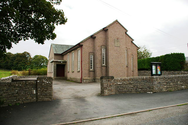 Methodist Church, Newbiggin-on-Lune. The new Methodist Church built in 1939.